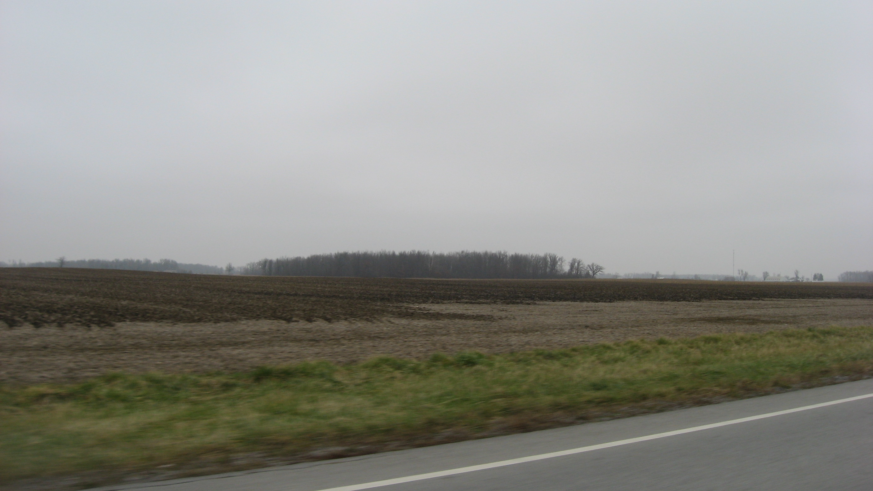 View of countryside to the northeast of the junction of State Route 81 and Township Road 55 in Liberty Township, Hardin County, Ohio, United States.